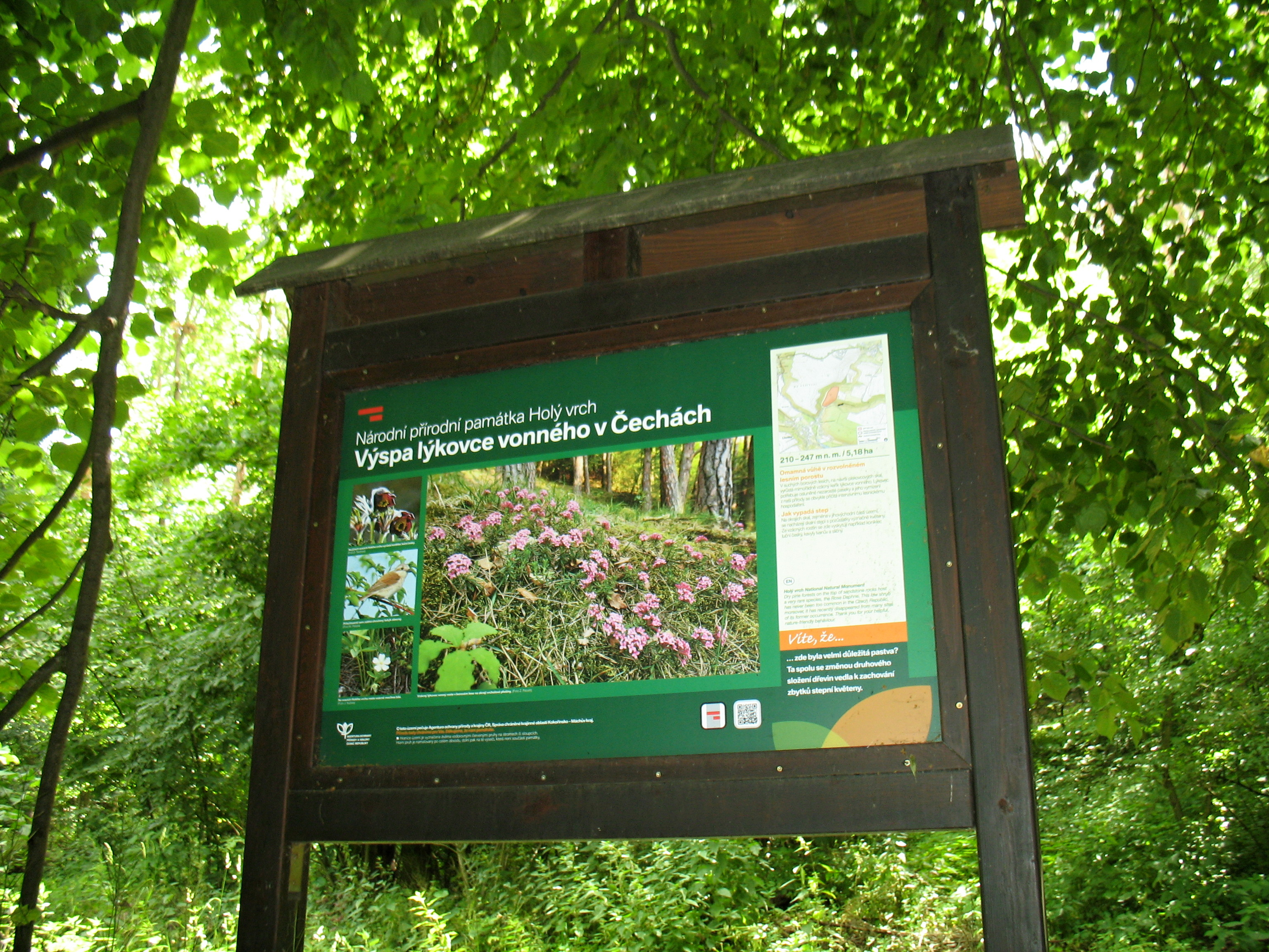 Holý vrch, national natural monument, Střemy Village, Mělník District